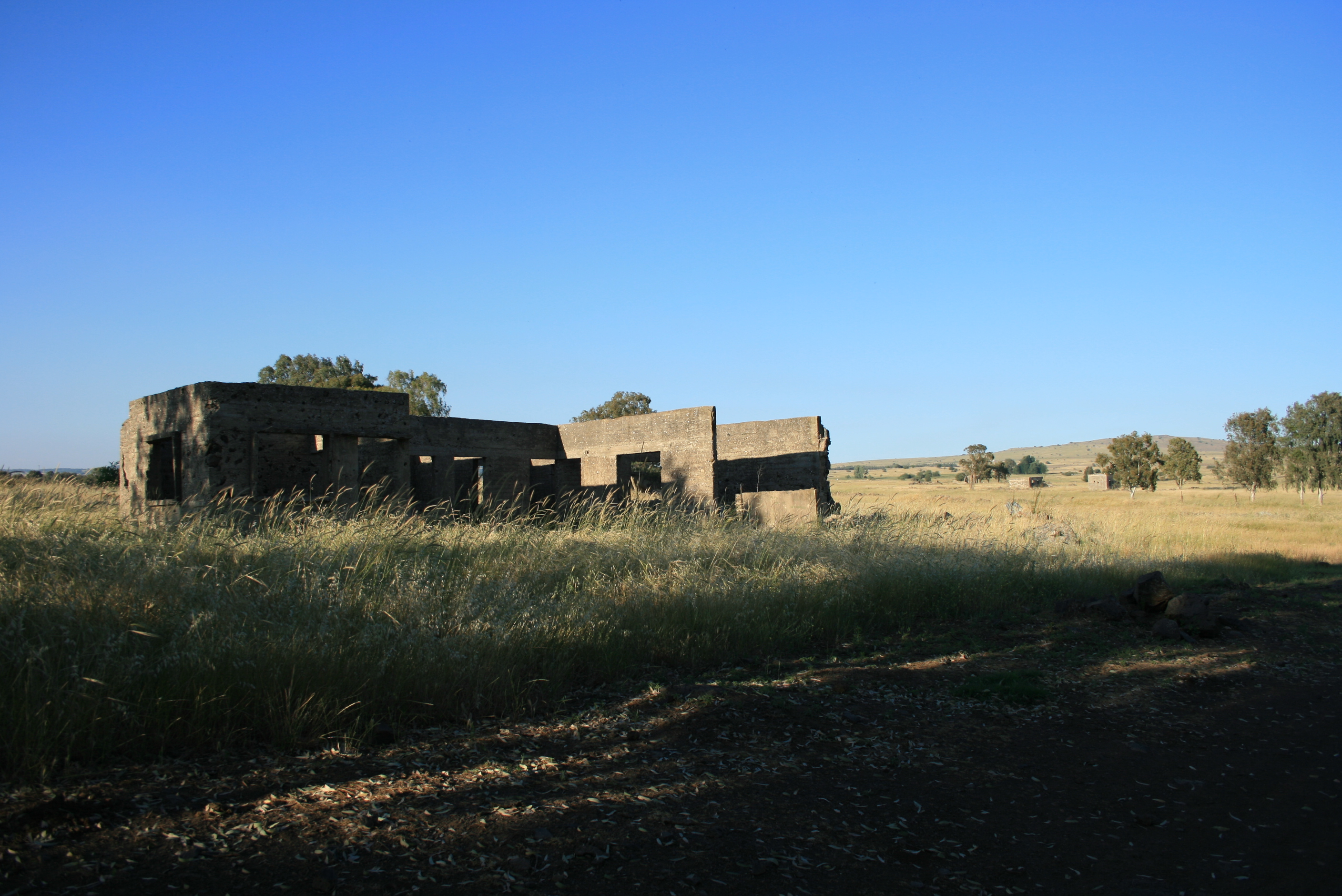 Syrian village of Hushnia, Golan Heights